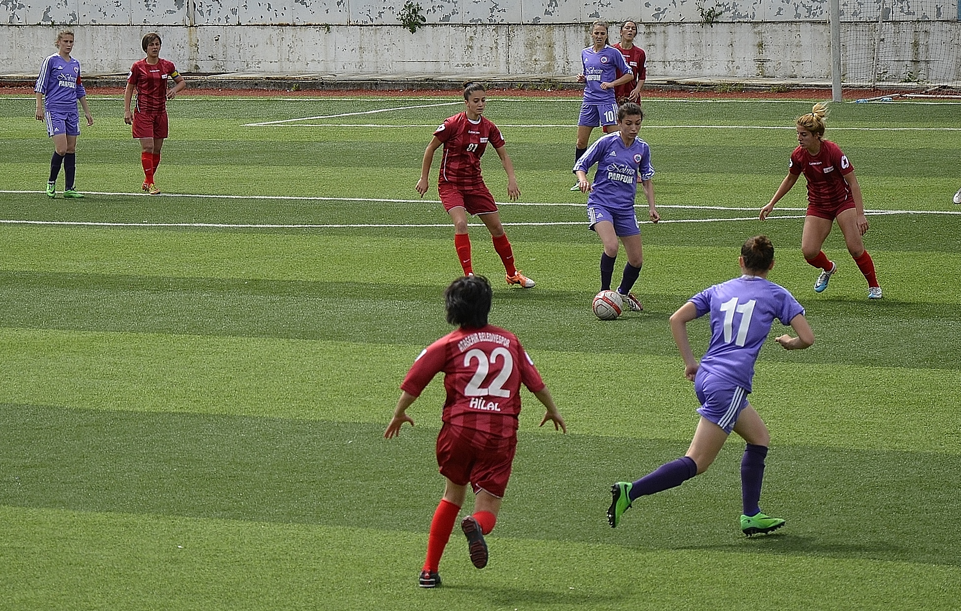 Ataşehir Belediyespor at home match against Kdz. Ereğlispor